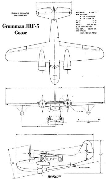 3-side-view of a Grumman JRF-5 Goose